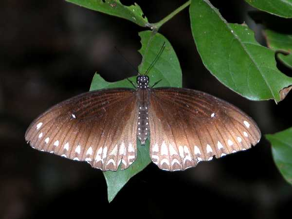 The Malabar Raven ( Papilio dravidarum) at Shendurney WLS